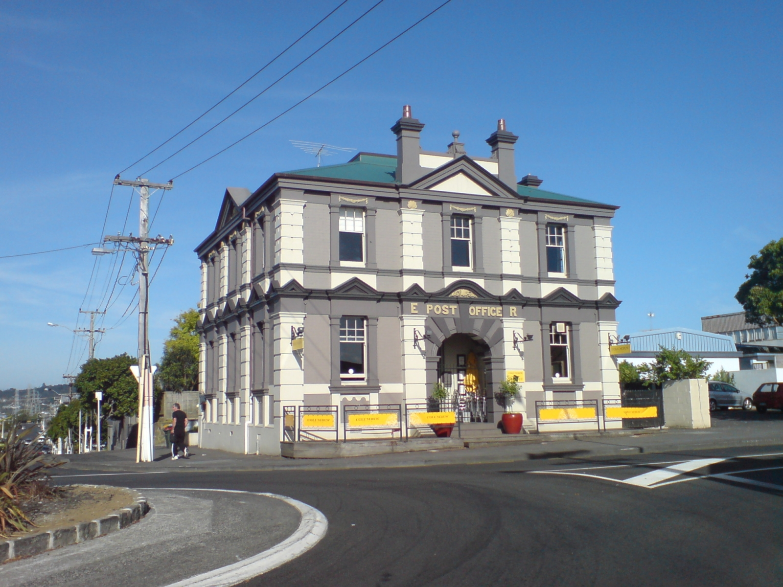 Formerly the Onehunga Post Office. Designed in 1902 by John Campbell, then Government architect. Onehunga is located in Auckland City, New Zealand. New Zealand Historic Places Trust Register number: 5473